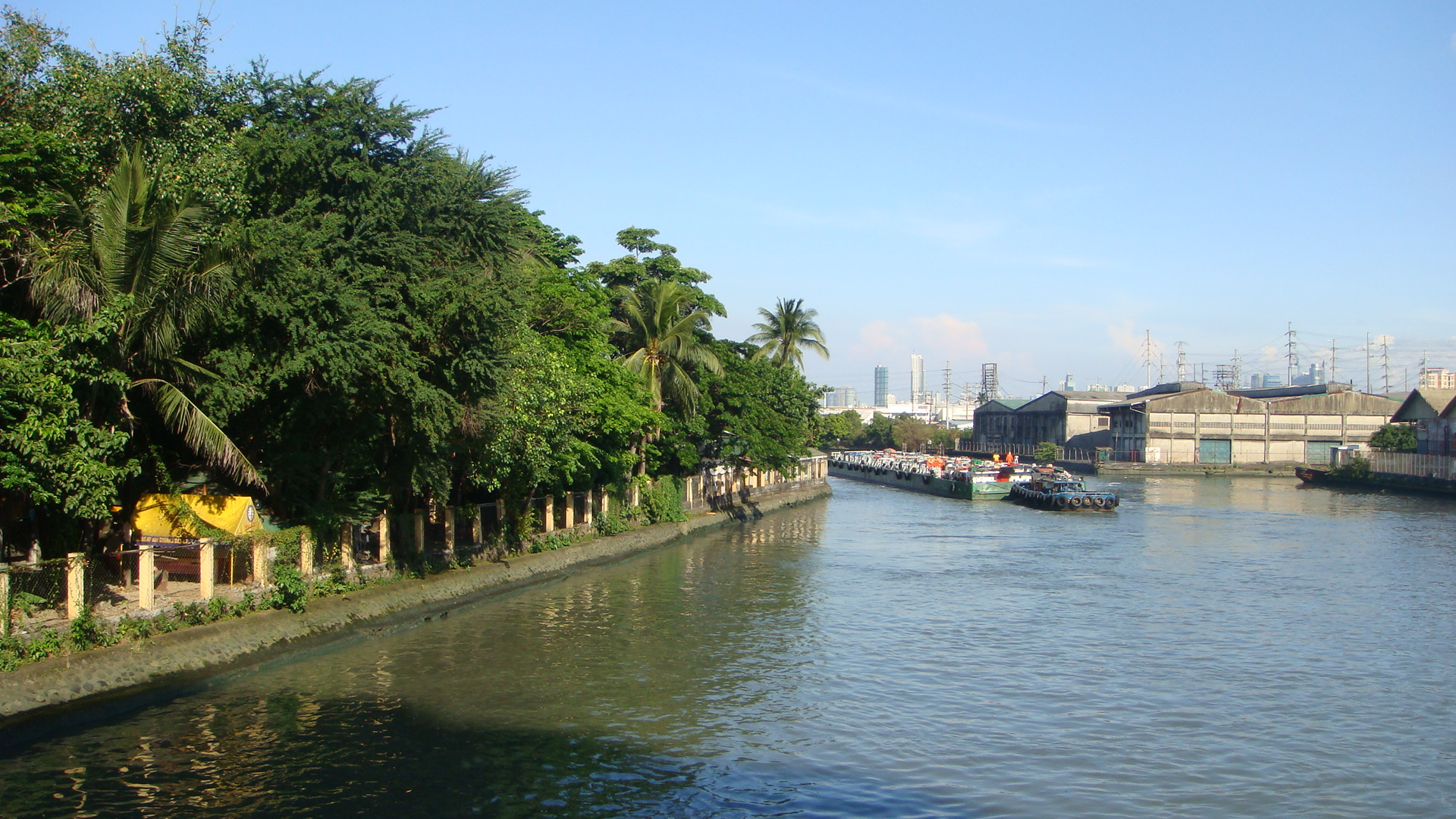 The Hospicio de San Jose (Hospice of St. Joseph), Brgy. 663-A, Zone 71, District V, Manila, Ayala Bridge